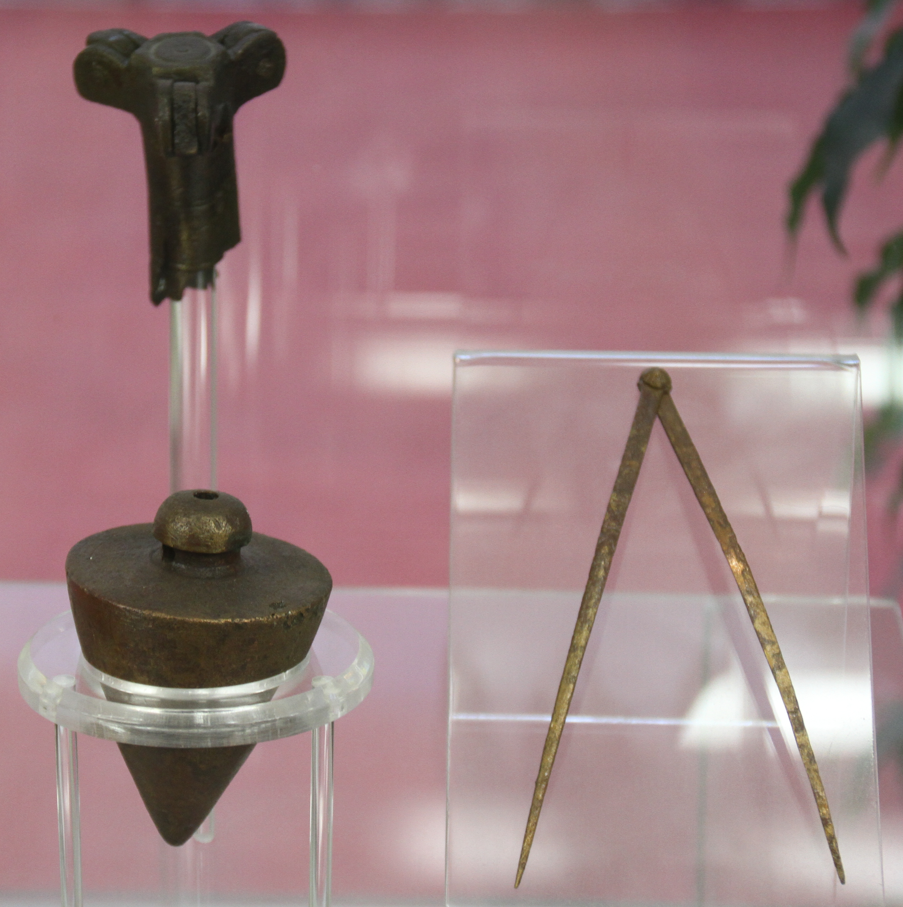 Ancient Roman land surveyor's Equipment, found in Aquincum, a Roman town in today's Budapest. Hungary.